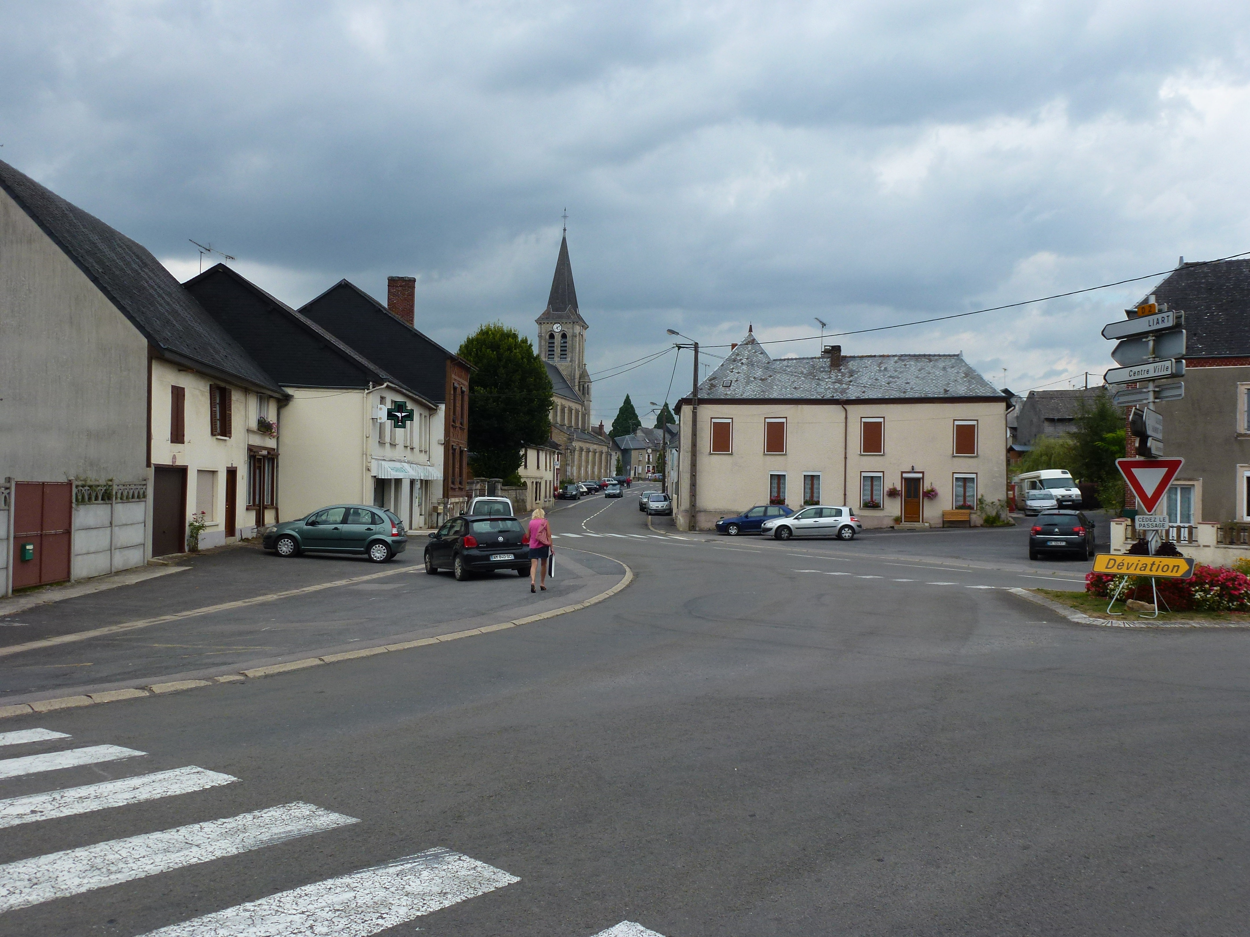 Signy-l'Abbaye (Ardennes) une rue